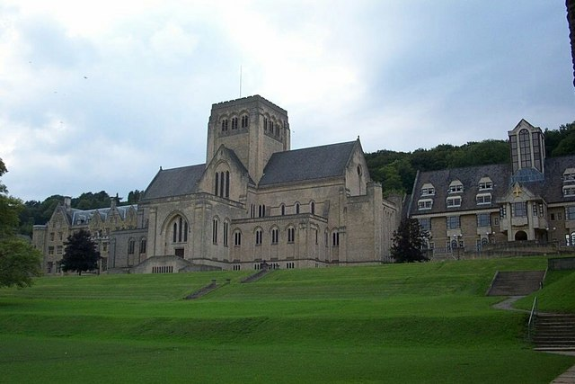 Ampleforth Abbey and College.